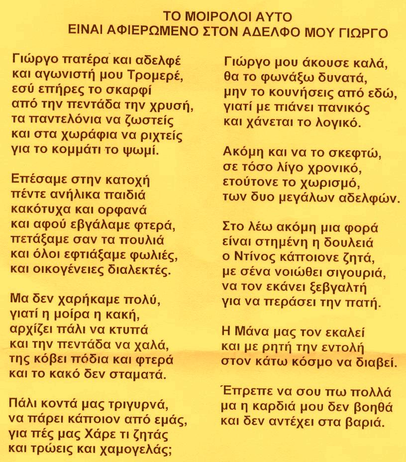 lament, expression of grief from Mani, Laconia region, Greece. "Lament for my brother" Written for George Tzeferis